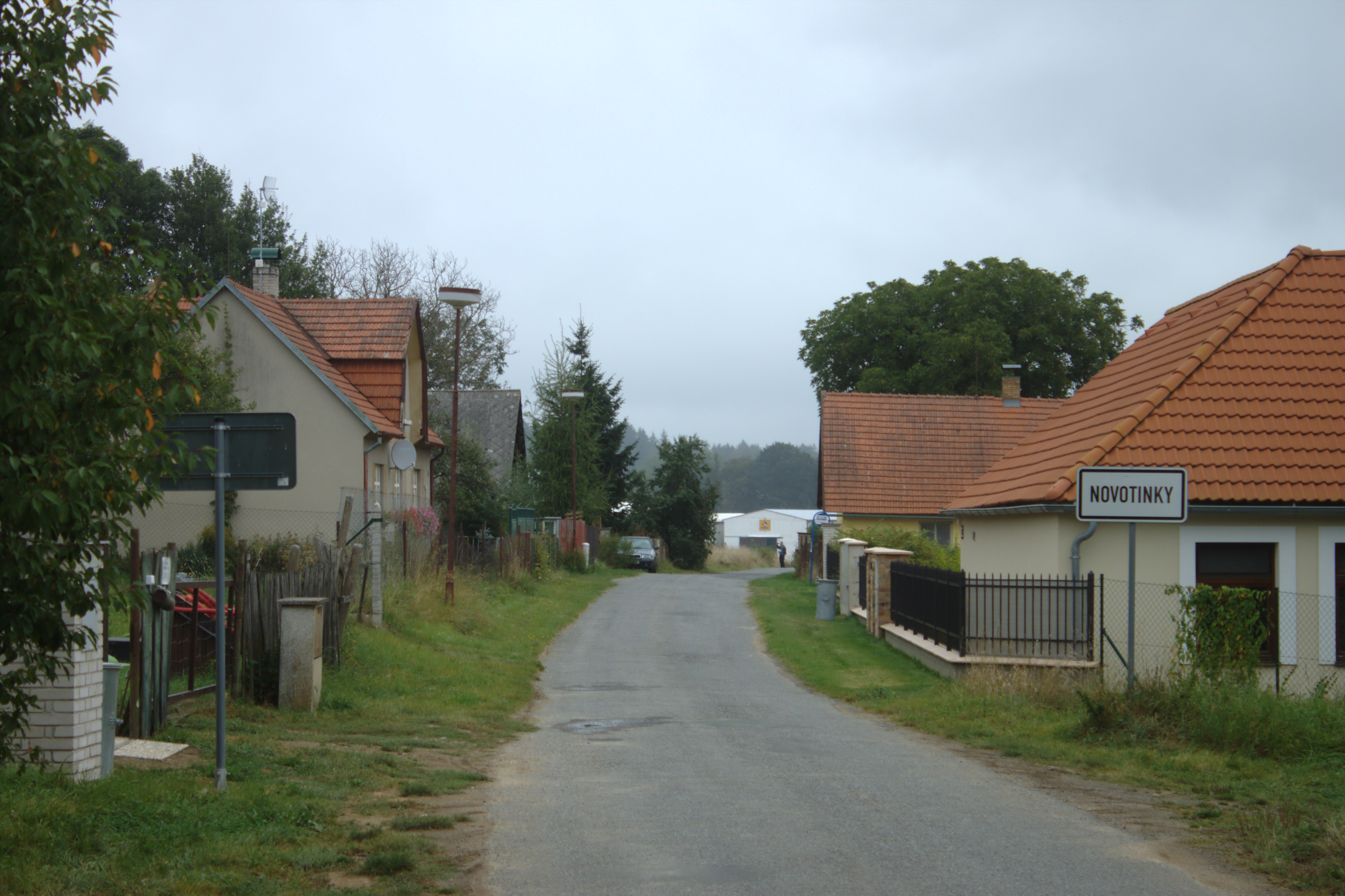 Main road in the village of Novotinky, located near Načeradec, Central Bohemia, CZ